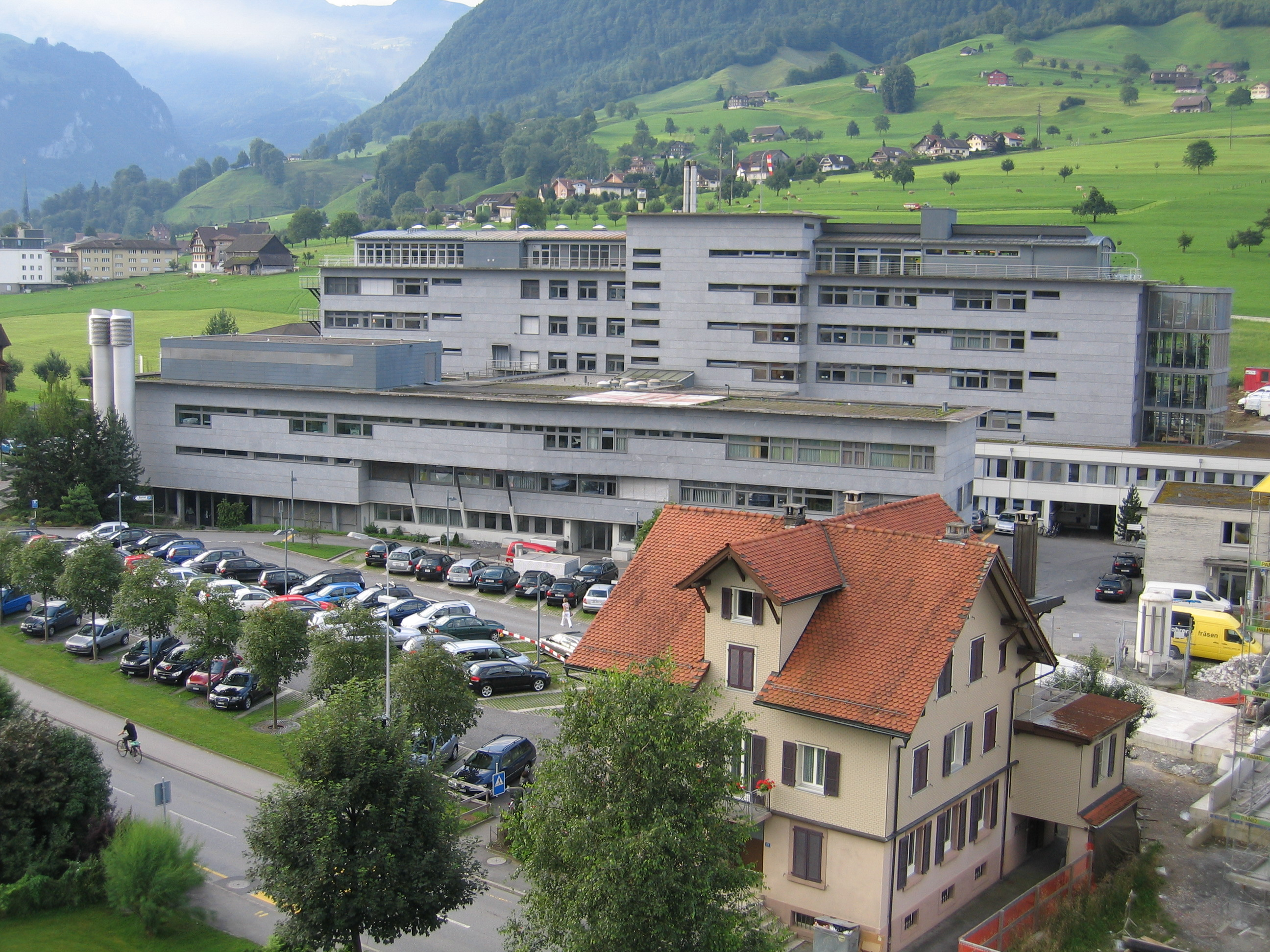 North facade of the cantonal hospital of Nidwalden in Stans